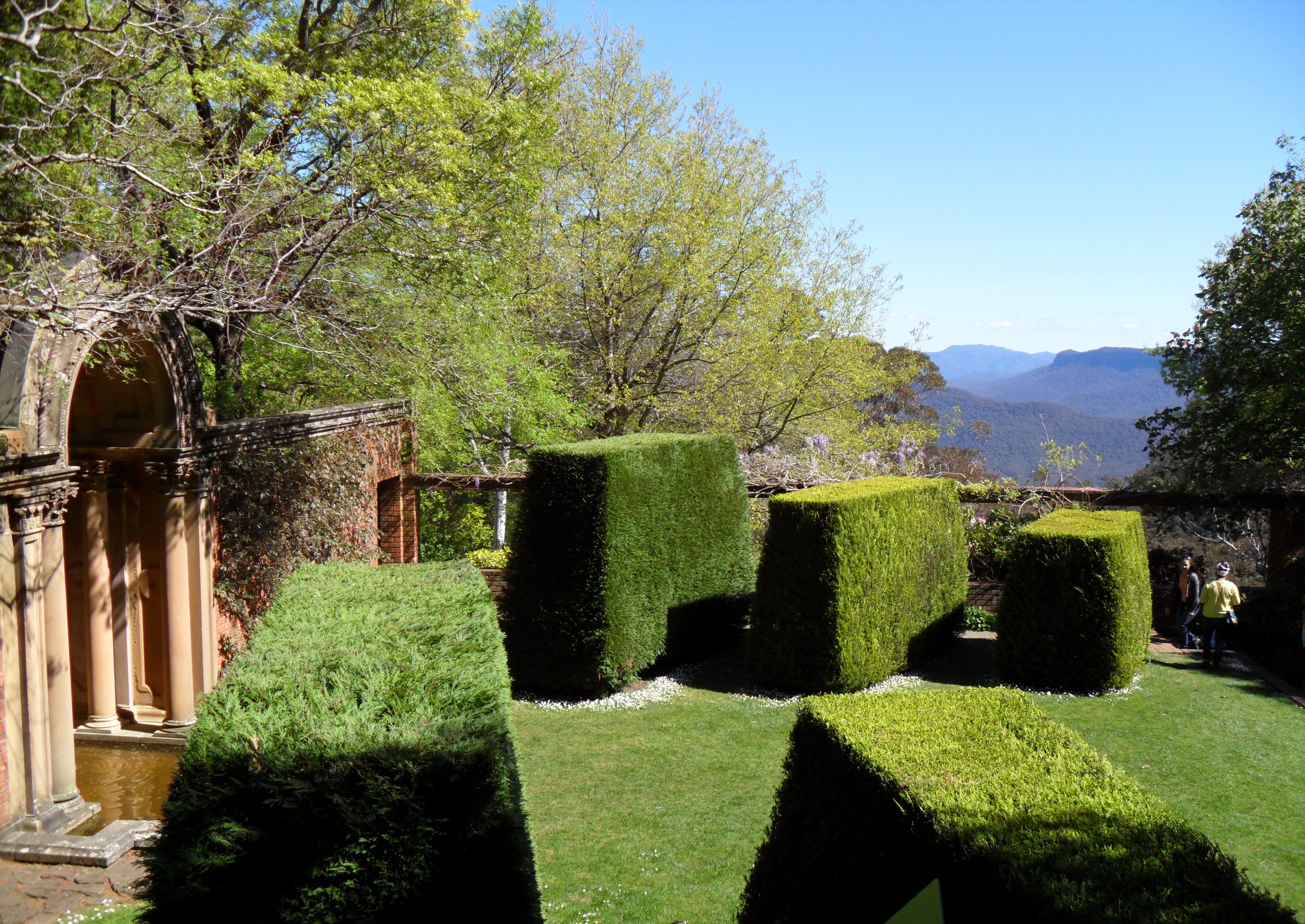 Everglades Garden, Leura, NSW, Australia (view toward Jamison Valley, Blue Mountains NP)